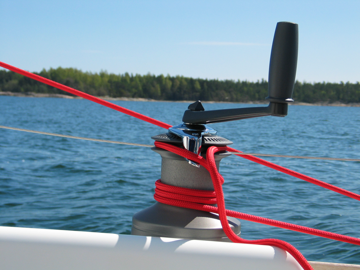 Winch in a sailing boat